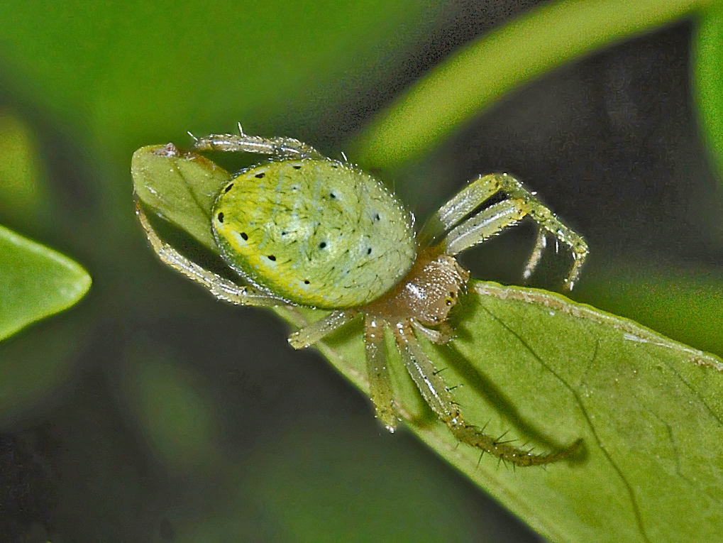 Araniella cucurbitina. Dorsal view